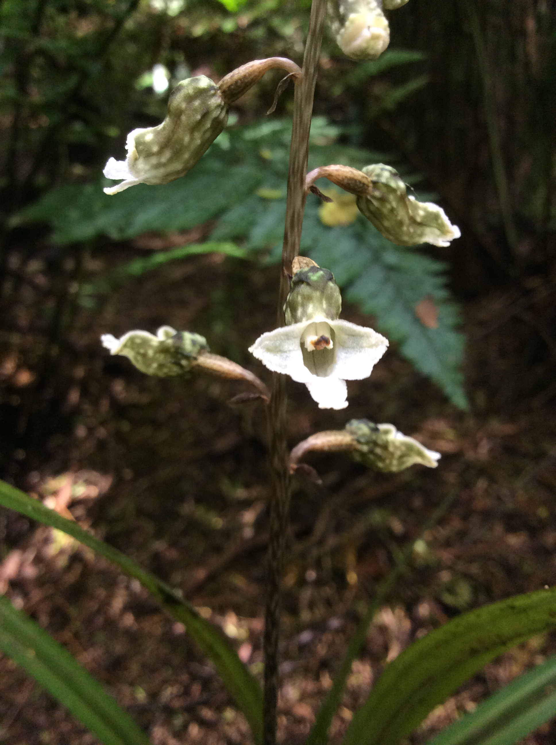 Gastrodia cunninghamii in Fosbender Park, Invercargill, South Island, New Zealand